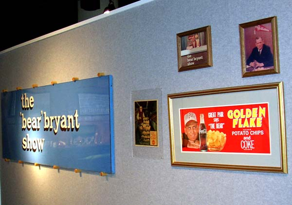 Items on display at the Bryant Museum for The Bear Bryant Show.